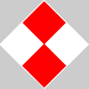 US Coast Guard Daymark "NR"